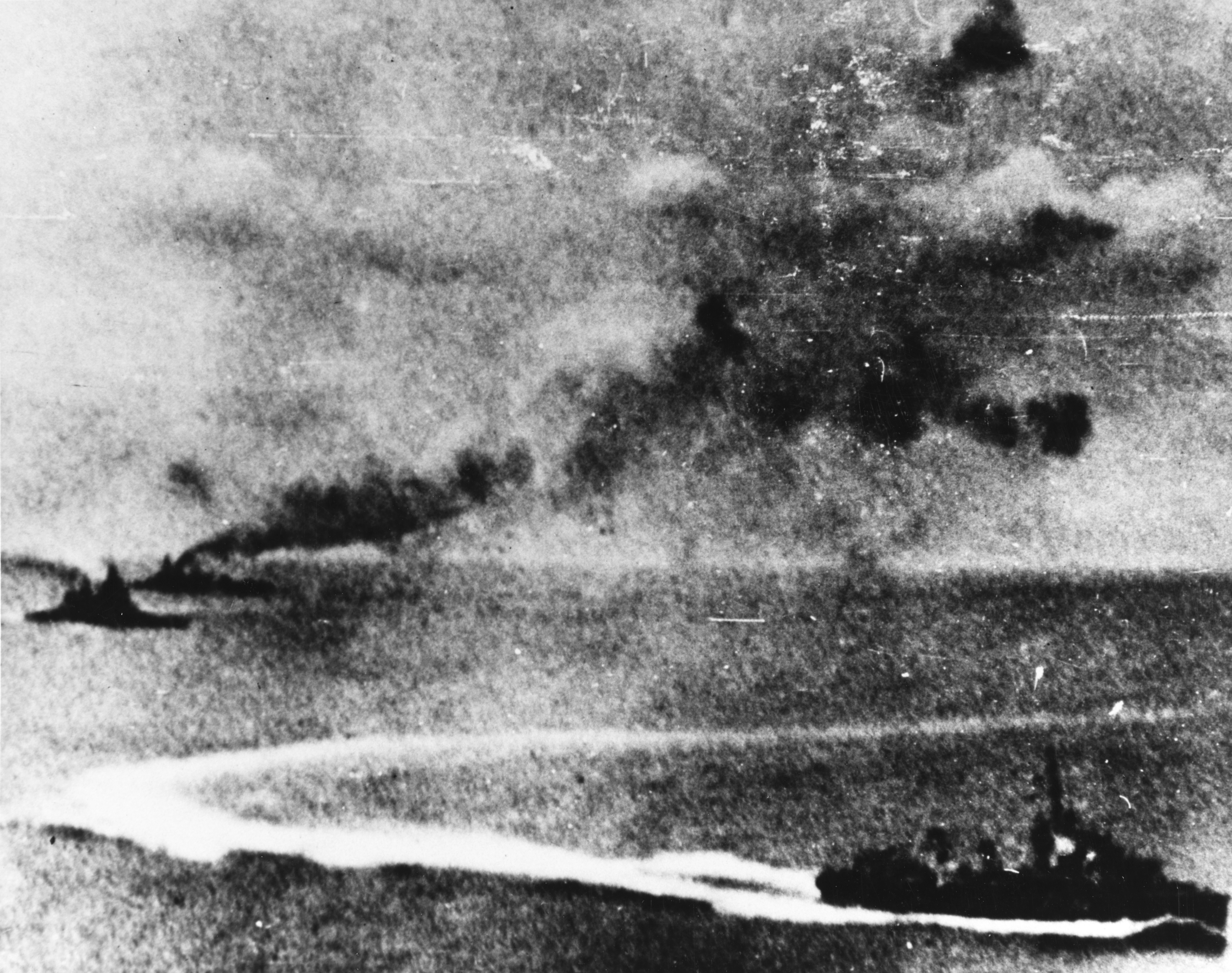 Loss of HMS Prince of Wales (53) and HMS Repulse, 10 December 1941: Photograph taken from a Japanese plane, with the battleship Prince of Wales at far left and the battlecruiser Repulse beyond her. A destroyer, either HMS Express (H61) or HMS Electra (H27), is maneuvering in the foreground. Note: Dulin and Garzke's Allied Battleships in World War II (ISBN 978-0870211003), page 199, states that this photograph was taken after the first torpedo attack, during which the Prince of Wales sustained heavy torpedo damage.